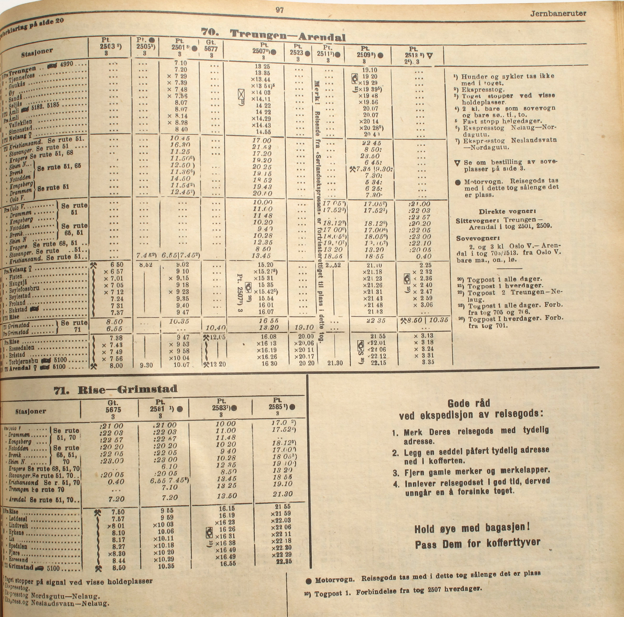 A page in Rutebok for Norge 1950